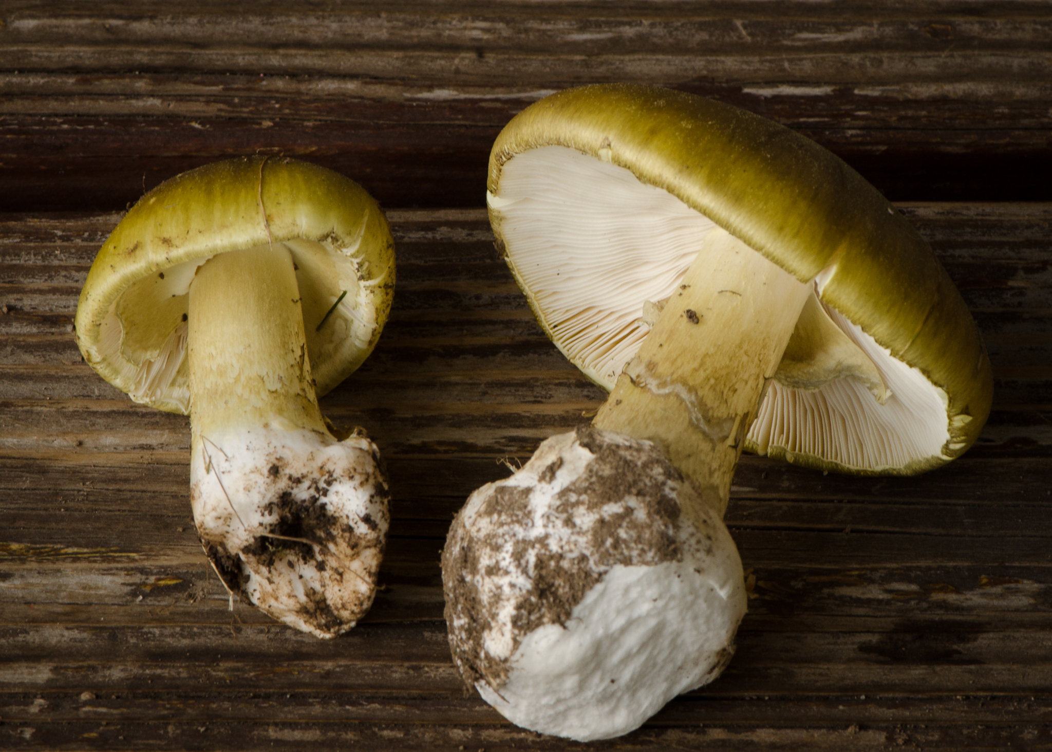 Amanita phalloides - Death Cap